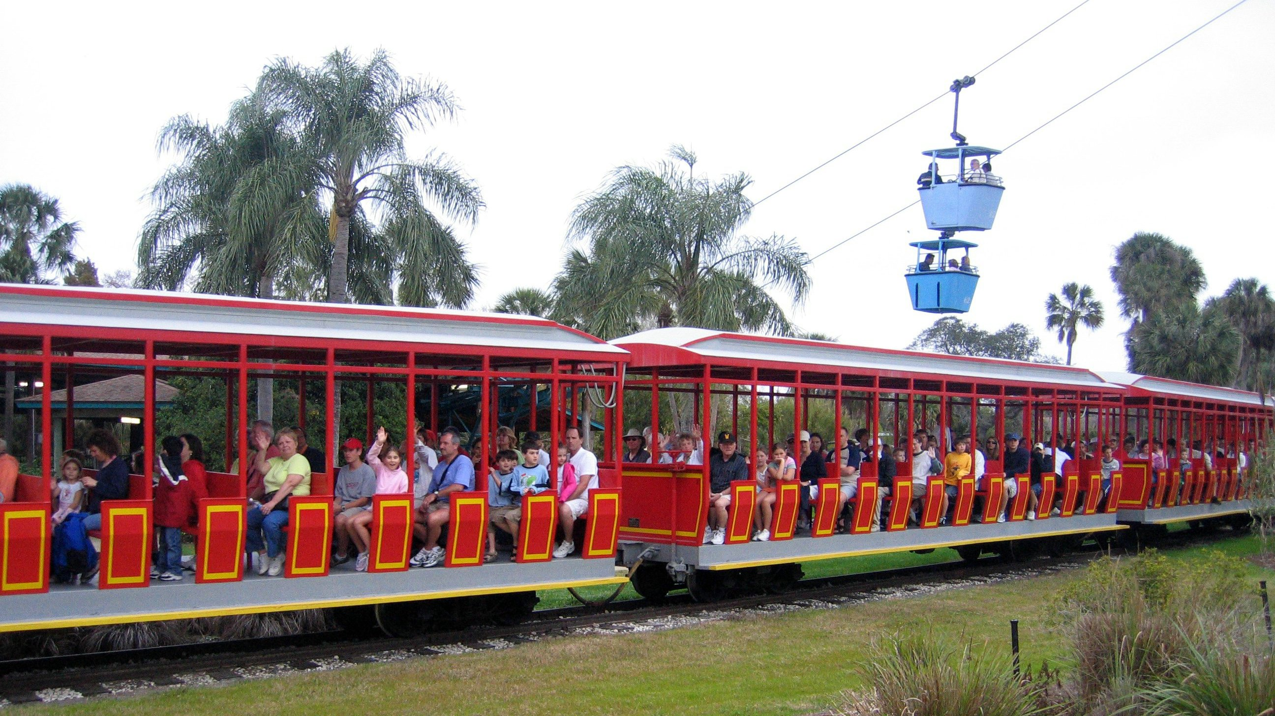 A picture I took of the cars of the Serengheti Express in Busch Gardens Africa. Later I noticed the Skyride in the background, so I thought it would be a good picture for the article as they are right next to each other. --Douglas Whitaker 18:24, 25 July 2006 (UTC)